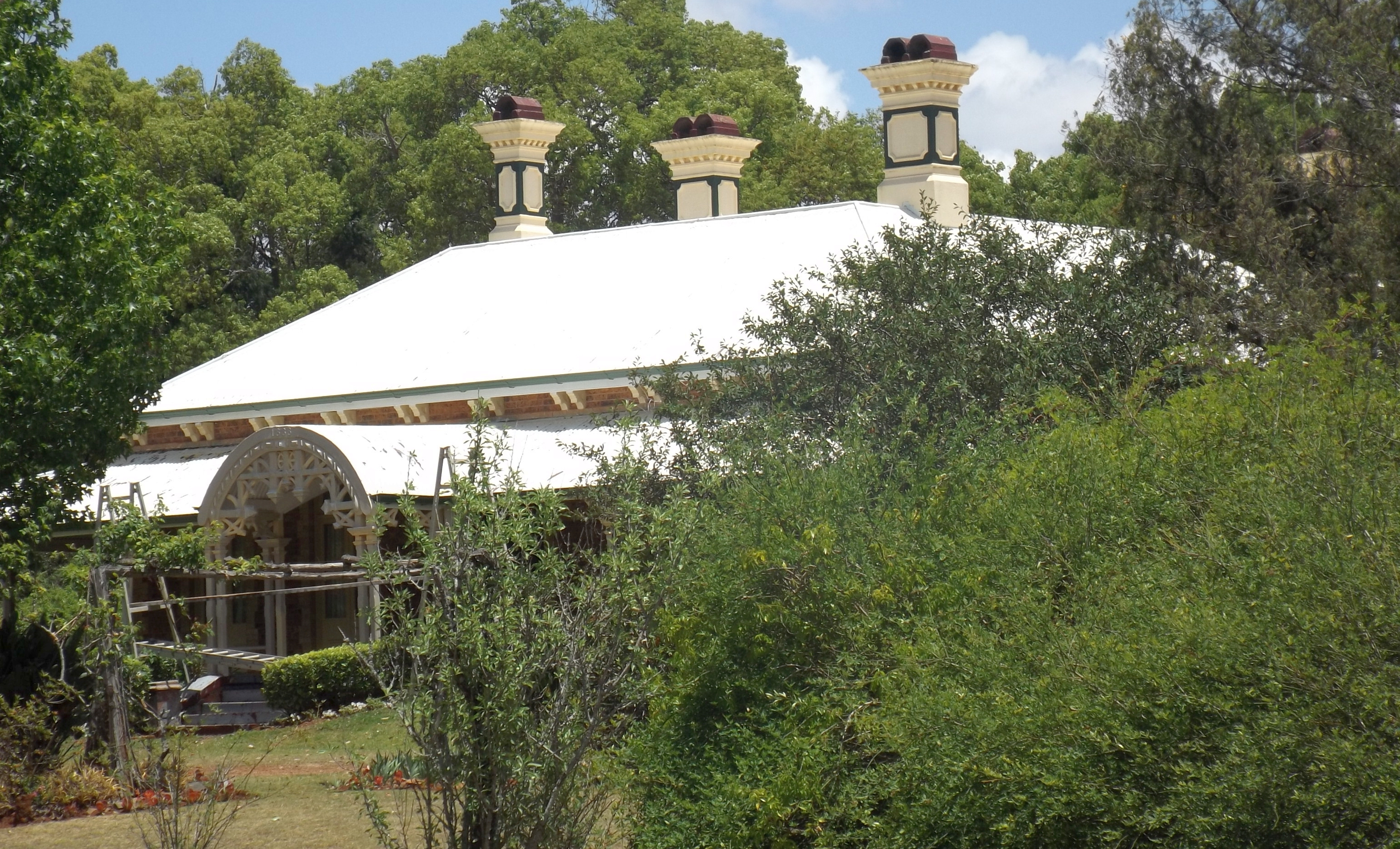 Photo of Weetwood residence and gardens at Newtown, Toowoomba, Queensland, Australia.